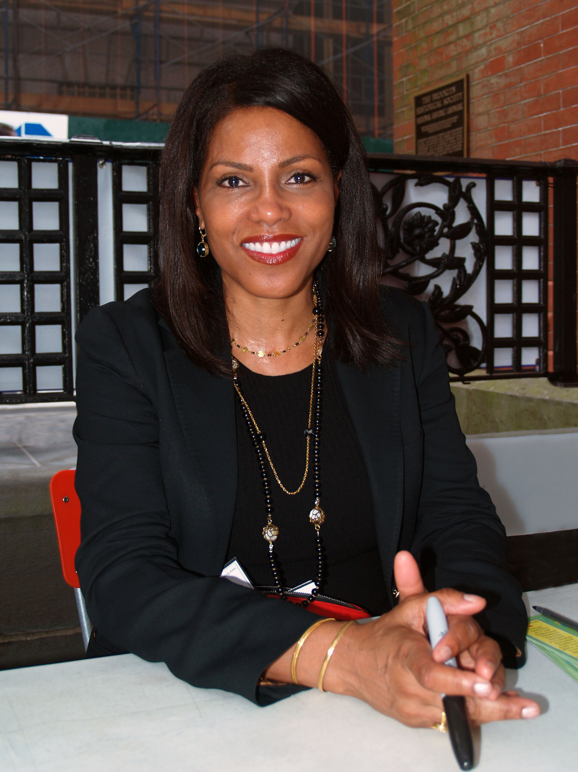 Motivational speaker and writer Ilyasah Shabazz, daughter of Malcolm X, following the "Peace: The Next Generation" panel at the the 2014 Brooklyn Book Festival, in which she and Arun Gandhi, grandson of Mahatma Gandhi, discussed life growing up as the child of a political figure, and the children's books they each wrote of their famous relatives. This photo was created by Luigi Novi. It is not in the public domain, and use of this file outside of the licensing terms is a copyright violation.